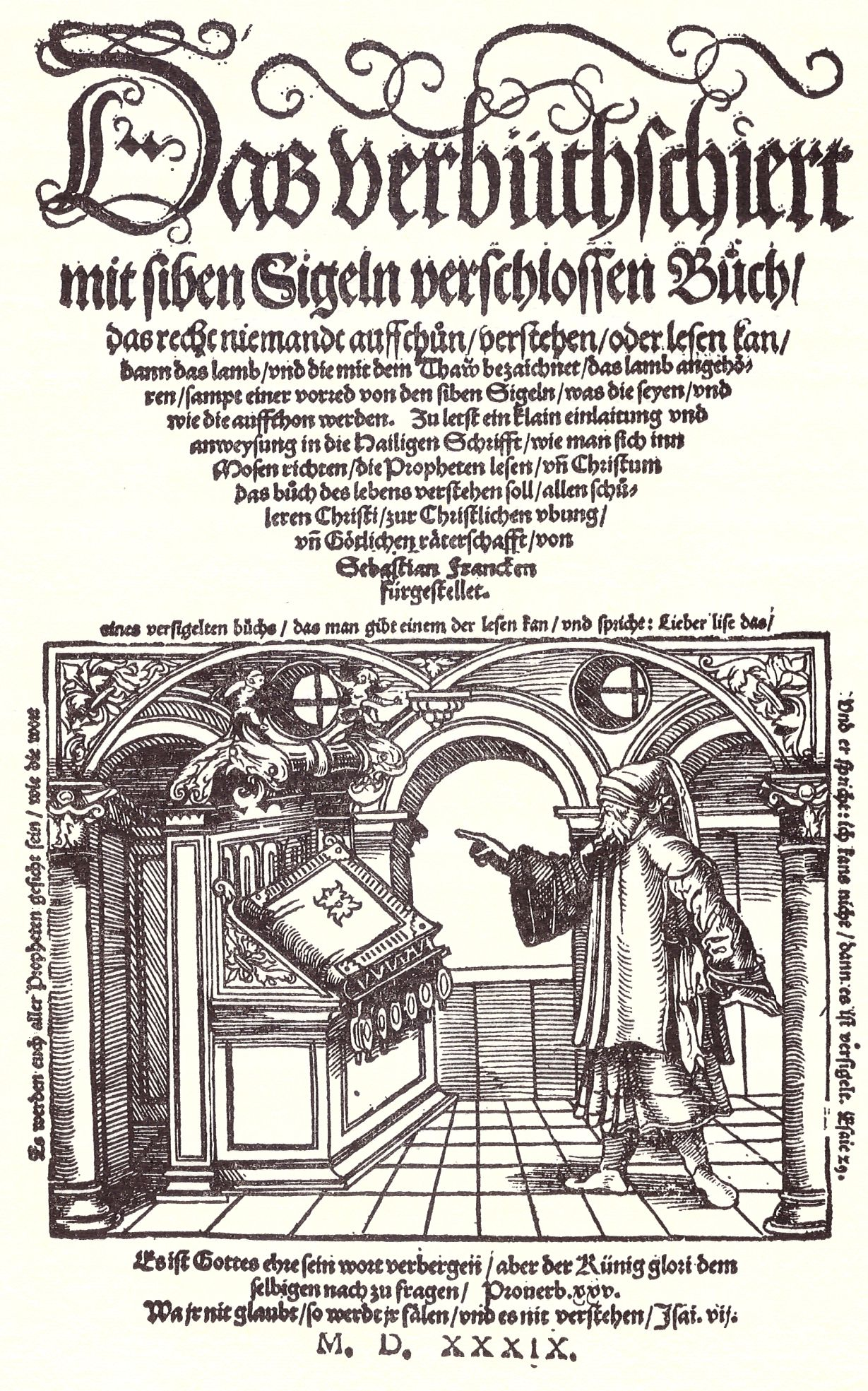 The title page of the treatise „The Sealed Book“, Augsburg, 1539.